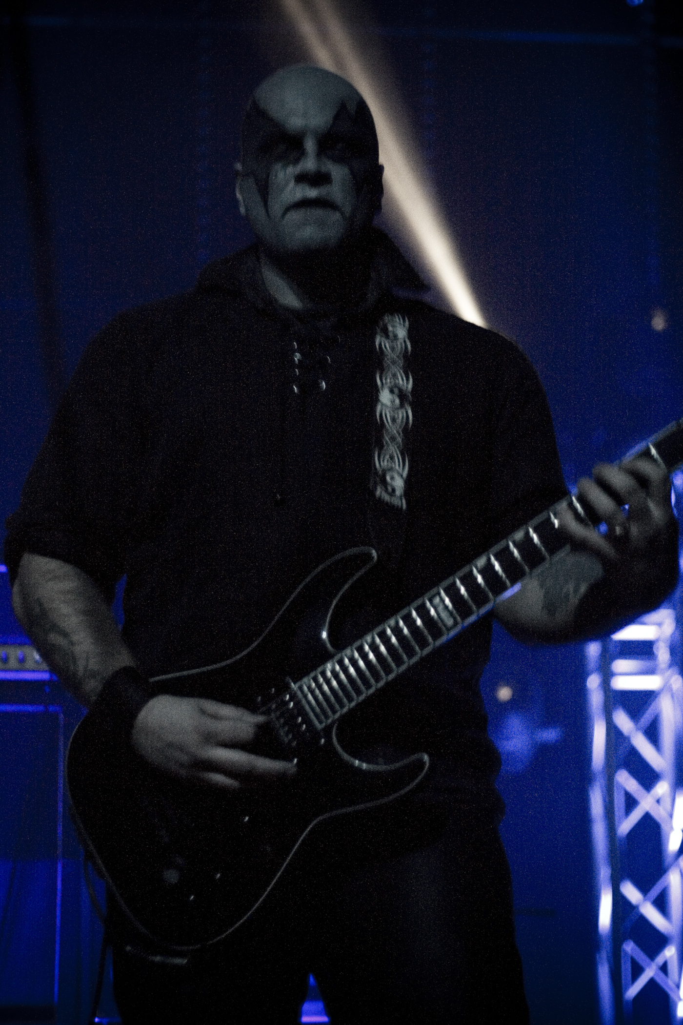 Robert Bordevik in Elemants of Rock.